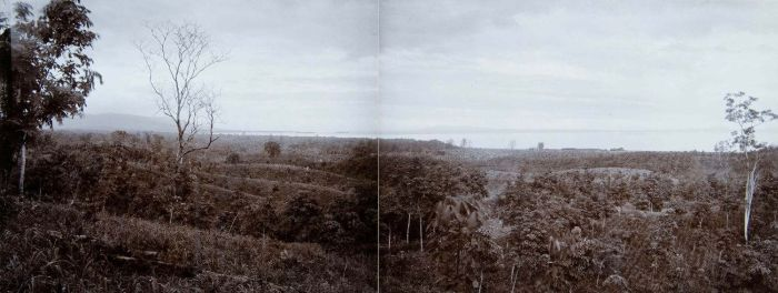 View over the 'Tjikoedjang' plantation and the bay between Sumur and Camara